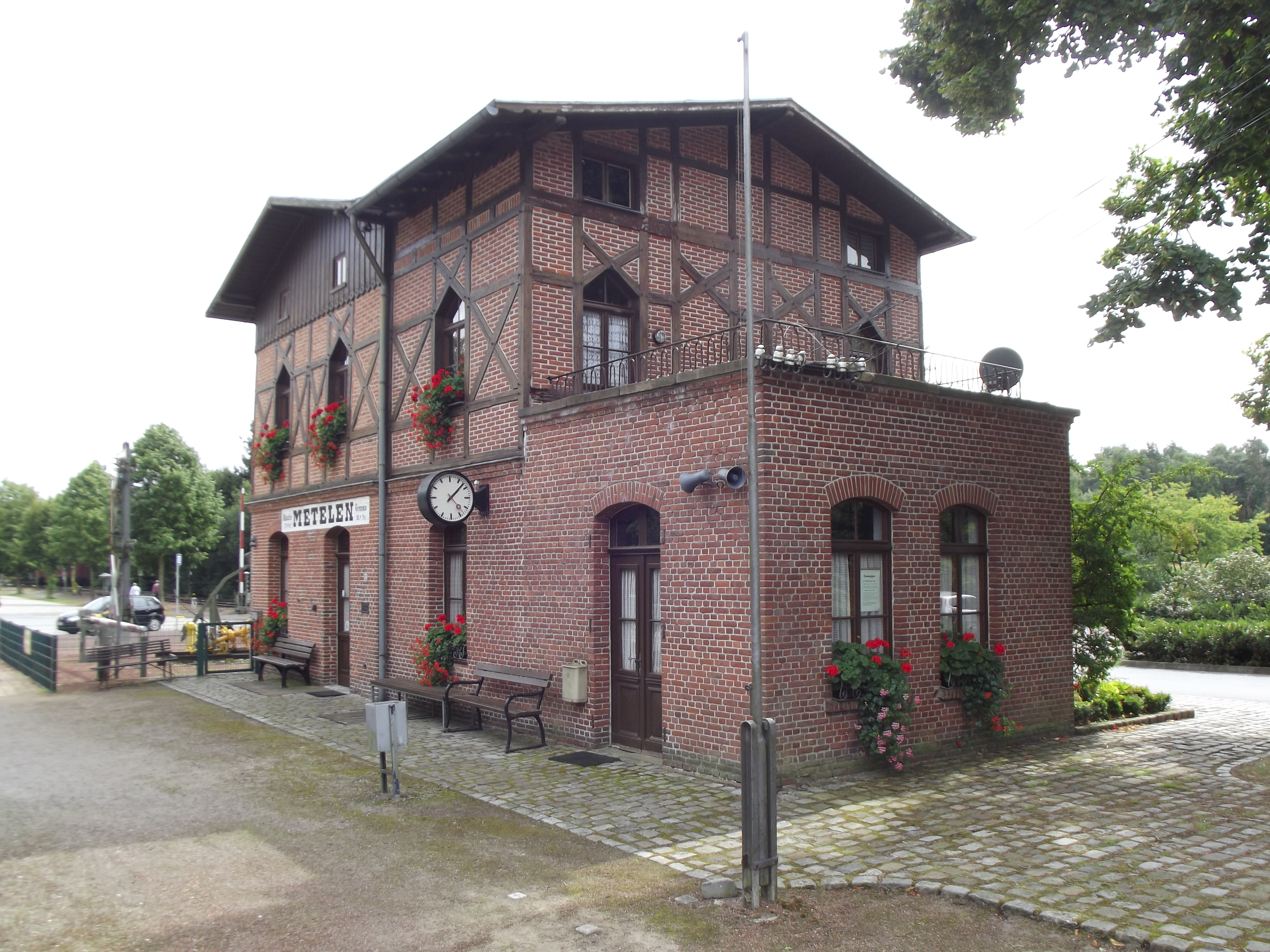 The former railway station. Now there are automats and the building has become a museum